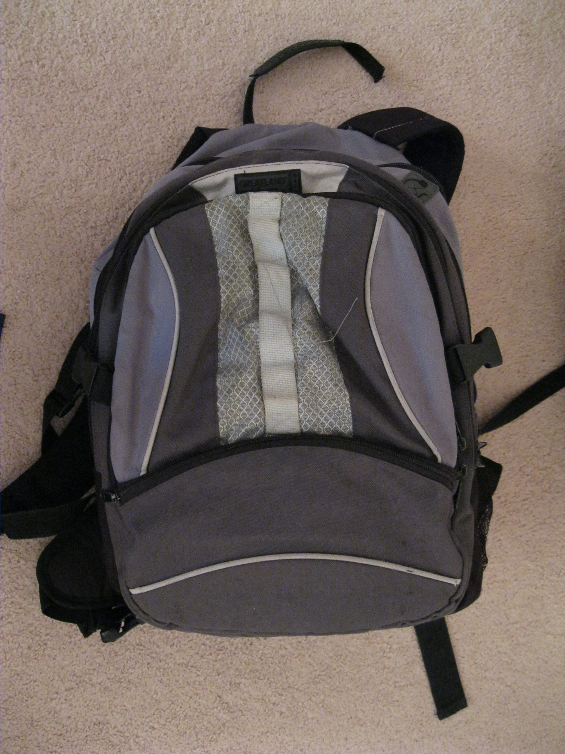 A backpack.